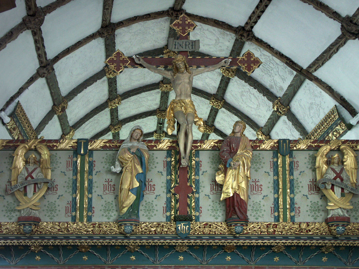 The church of Saints Hyacinth and Protus in Blisland, Cornwall, England.